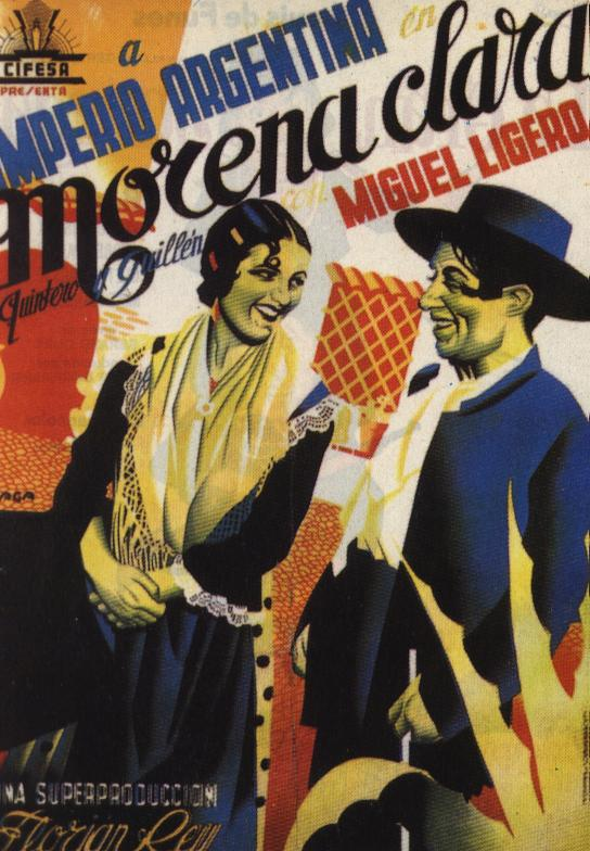 Poster for the Spanish musical film Morena Clara (1936).